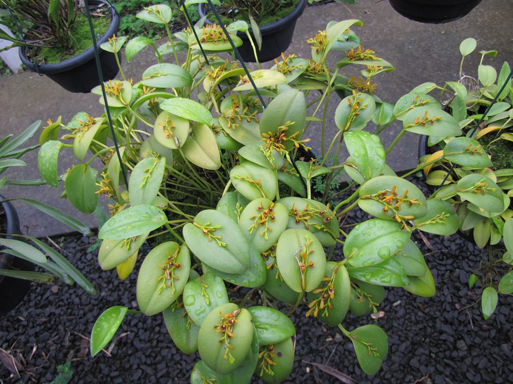 Blooming 25/jan/2013 - in Piracicaba, São Paulo, Brazil